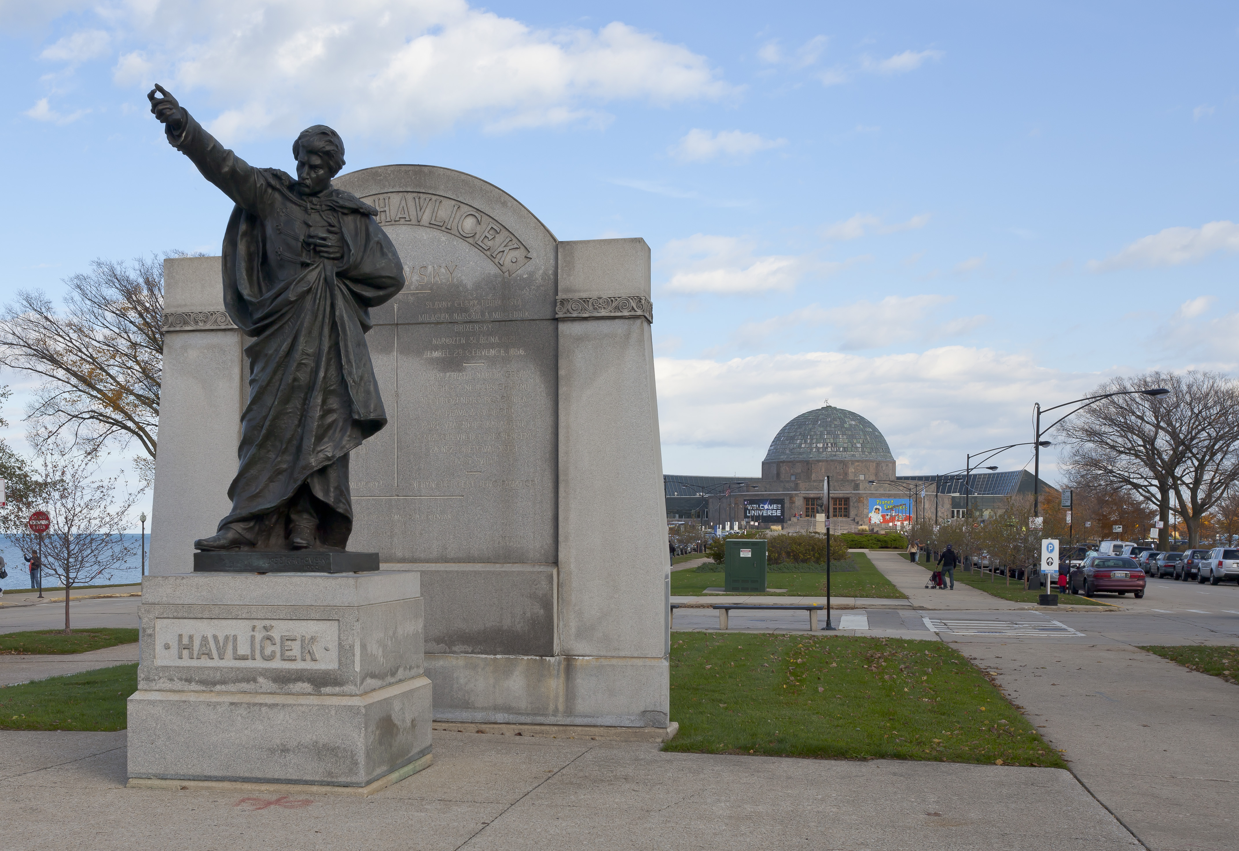 Karel Havlícek Borovsky Statue near the Adler Planetarium, Chicago, Illinois, USA